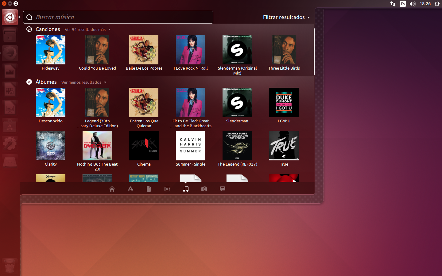 Apps lens ubuntu unity